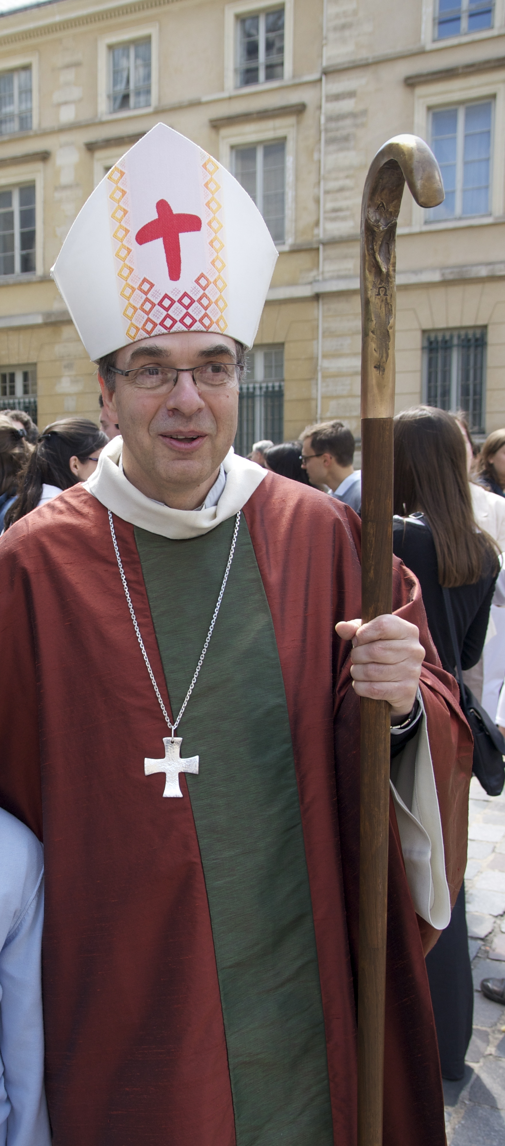 H.E. Jérôme BEAU, titular bishop of Privata, auxiliary bishop of Paris, France.